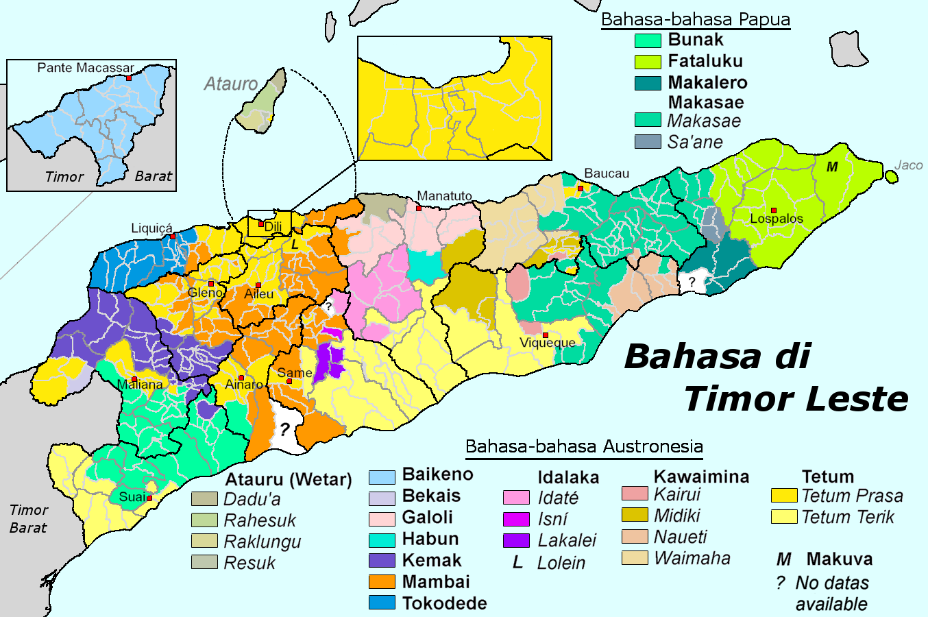 Major language groups in East Timor, according to the October 2010 census (Indonesian)